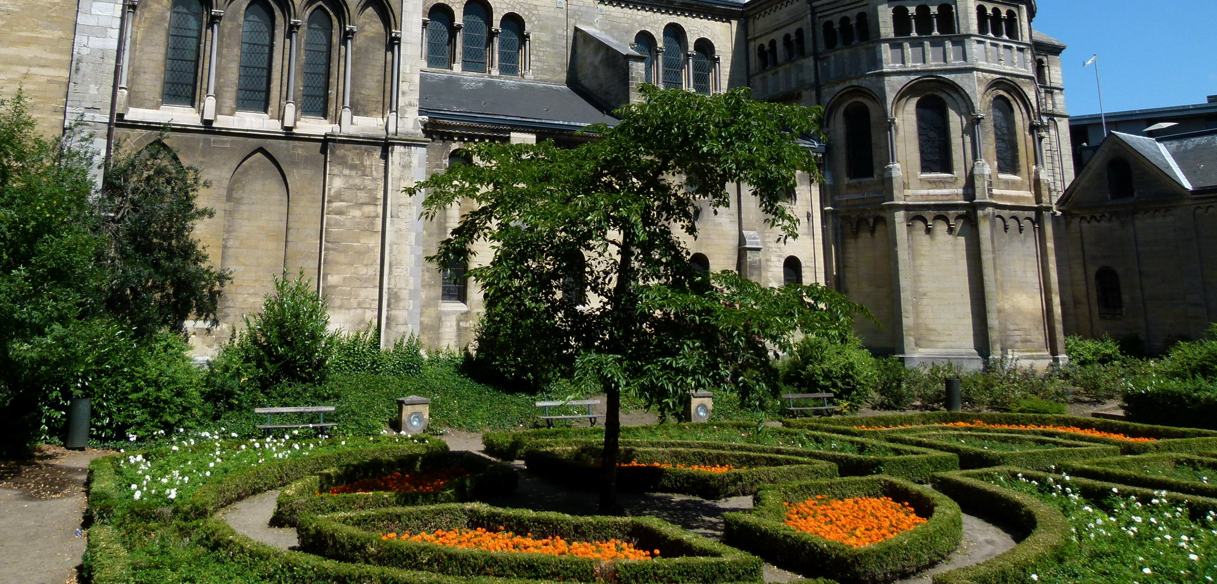 Roermond Minster, the Netherlands. View of gardens around Munsterkerk, where the abbey buildings once stood.